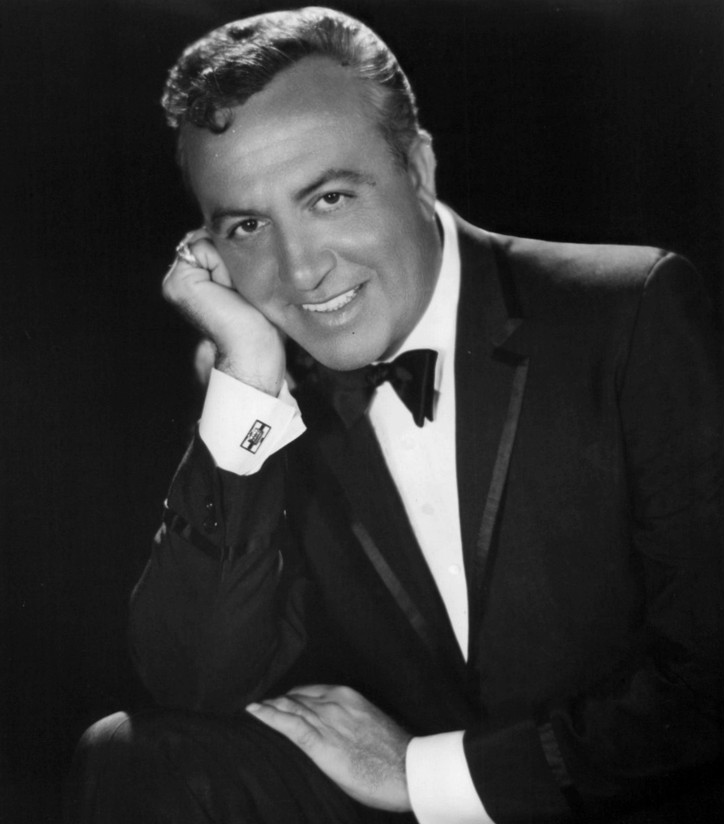 Photo of singer Don Cornell.